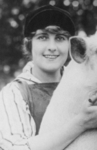 Actress Pearl White